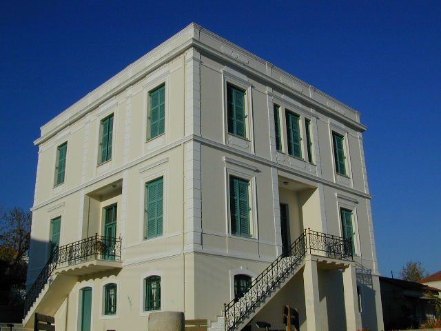 Building in Doxato, Drama, Greece